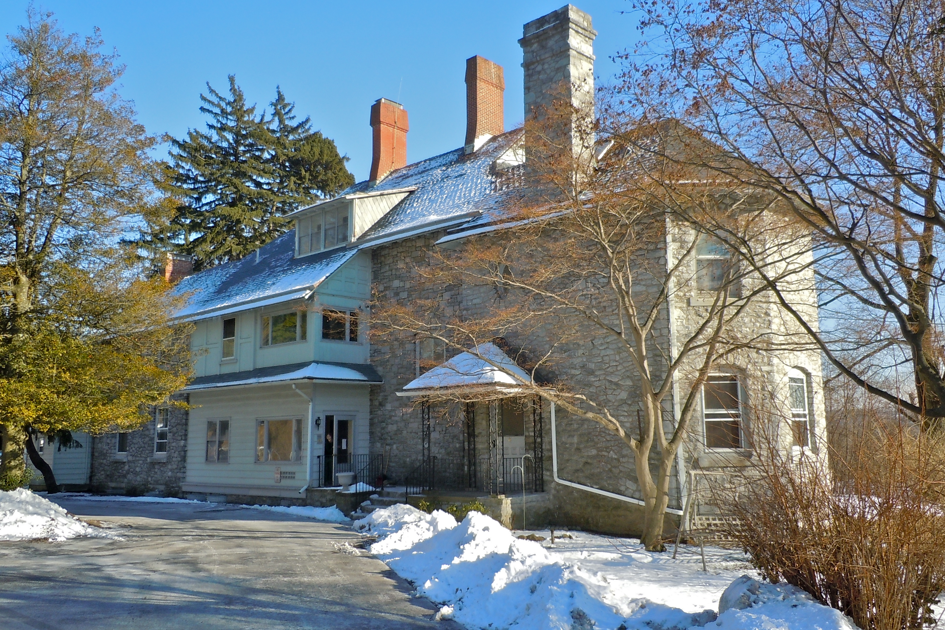 Charles Thomas House on the NRHP since September 6, 1984, at 225 North Whitford Road, West Whiteland Township, Chestoer County, near Exton, Pennsylvania.